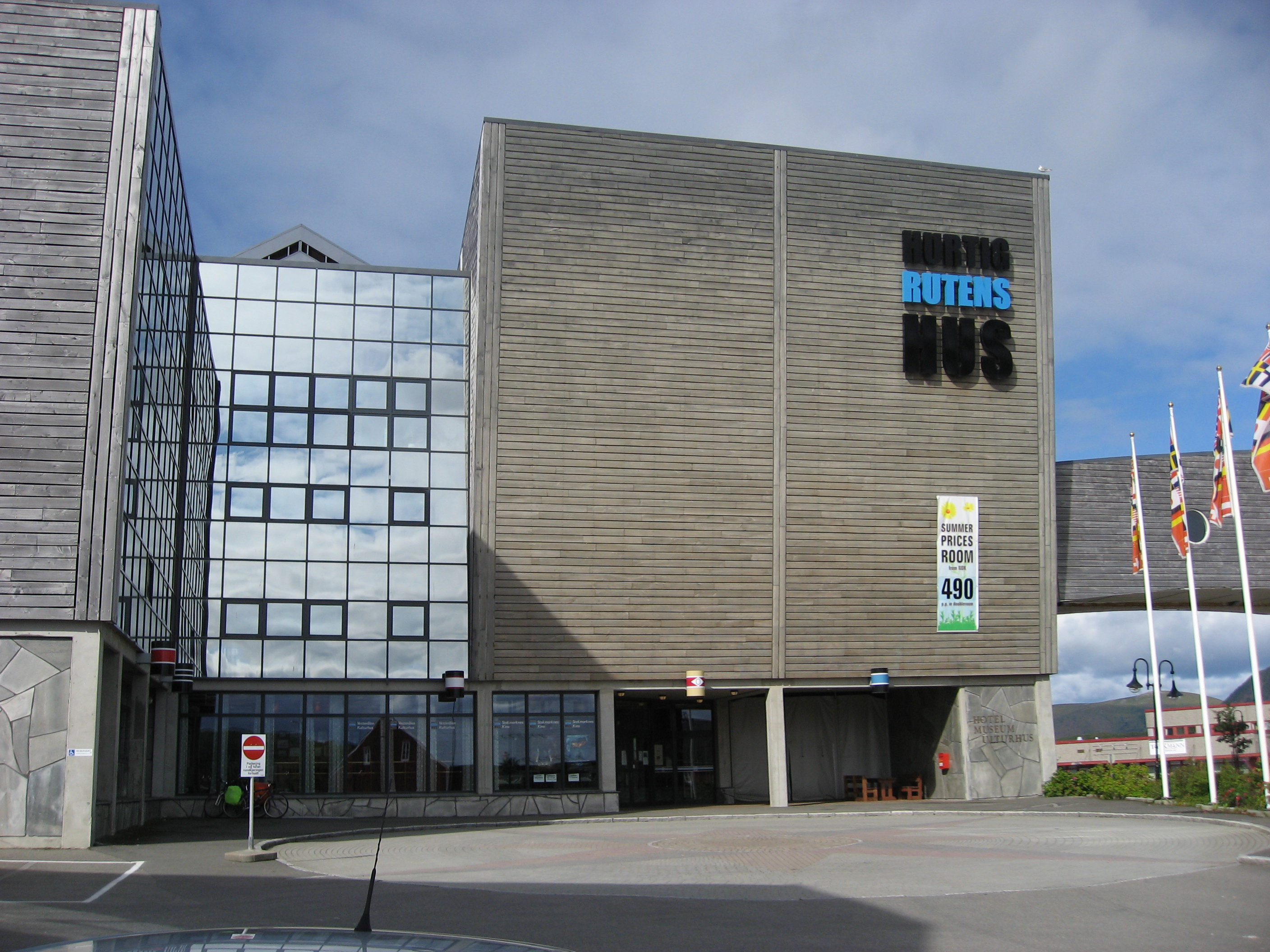 Hurtigruten Museum in Stokmarknes, Norway.